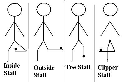 I made this image myself.